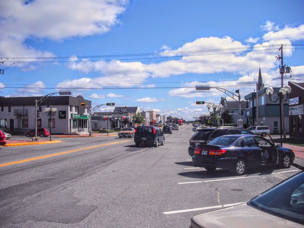 ロワイヤルーリュ、 マラーティク, ケベク, カナダ。